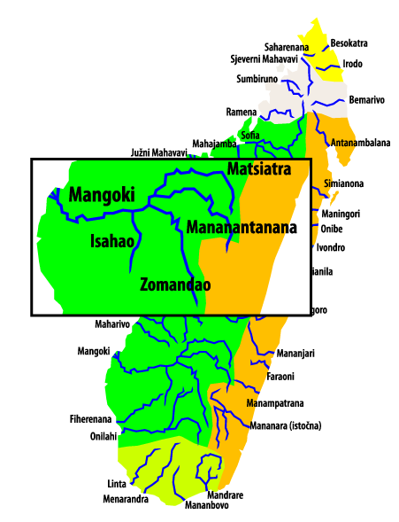 Drainage basin of river Mangoki